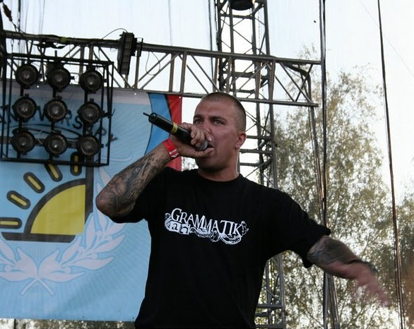 Polish rapper Marcin "Jotuze" Jozwa